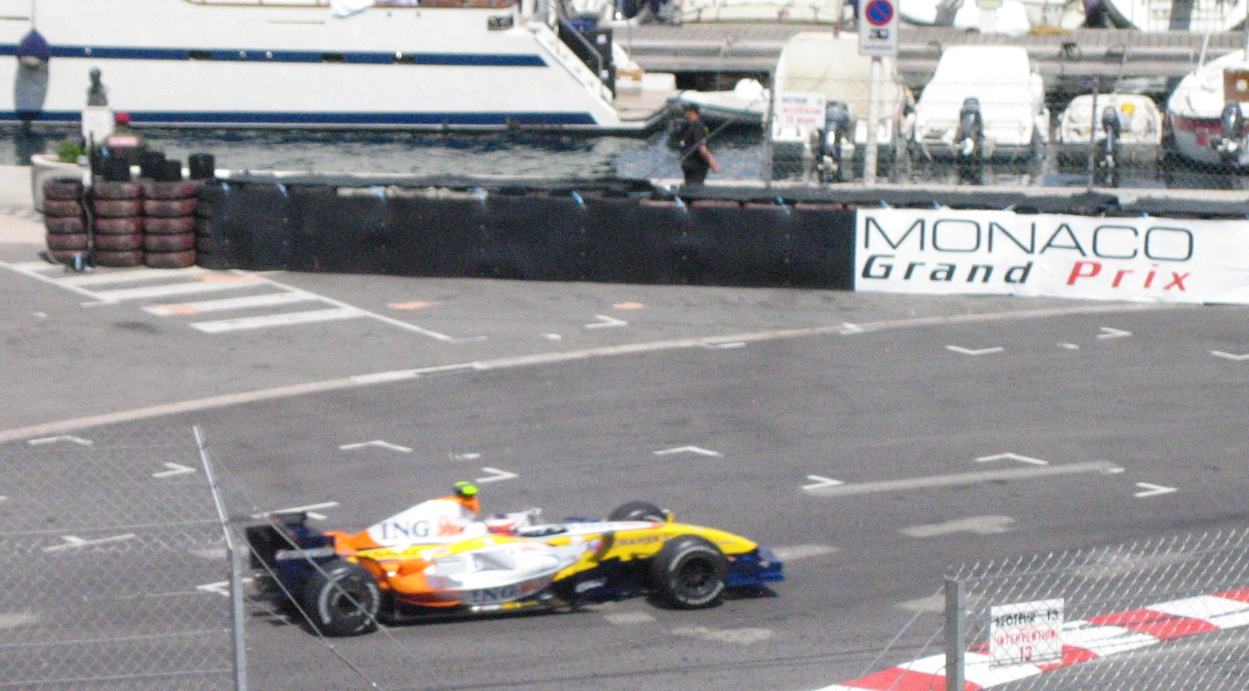 Renault has had a dismal season after winning two constructors' championships in a row. Rookie Heikki Kovalainen has been particularly disappointing; his teammate Giancarlo Fisichella has been consistently quicker. Fisi finished fourth and Heikki finished 13th.